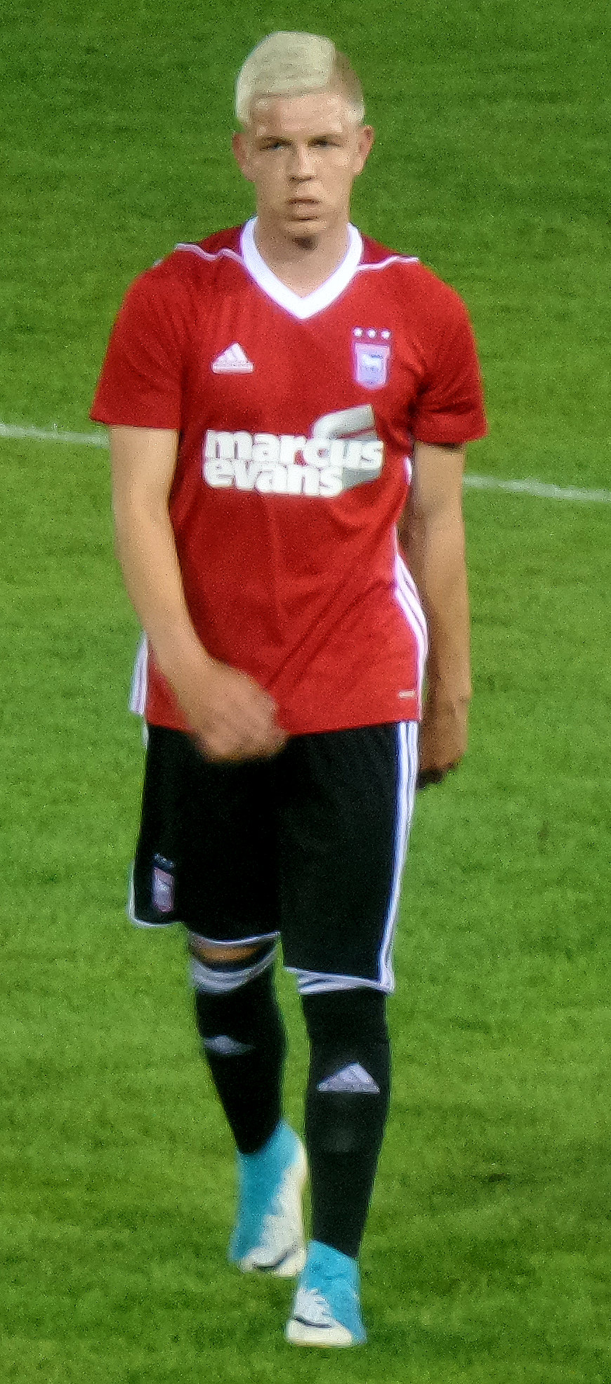 Monty Patterson playing for Ipswich Town at Peterborough United on 18 July 2017